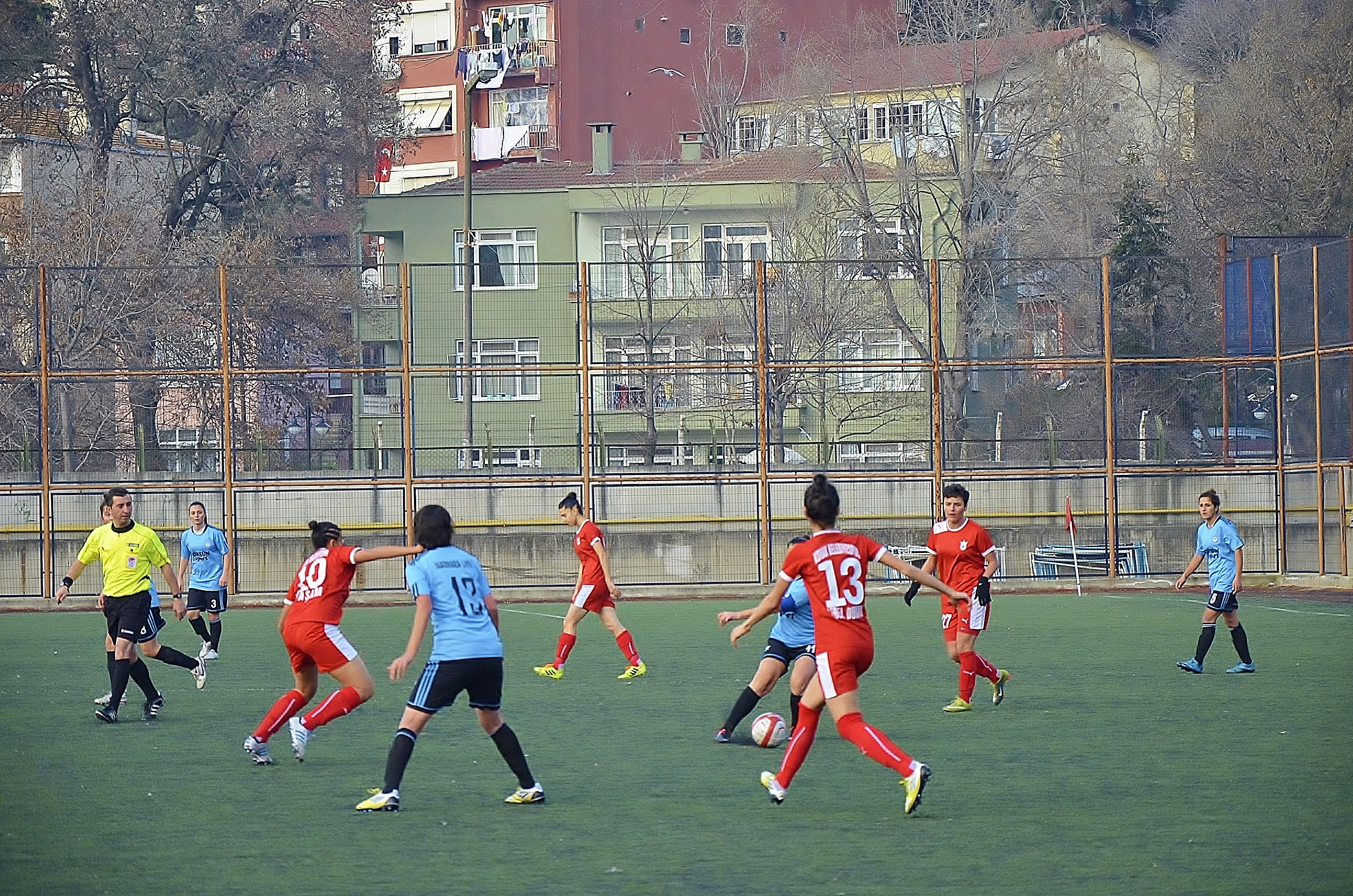 Turkish Women's First League match Marmara Üniversitesi Spor vs Konak Belediyespor